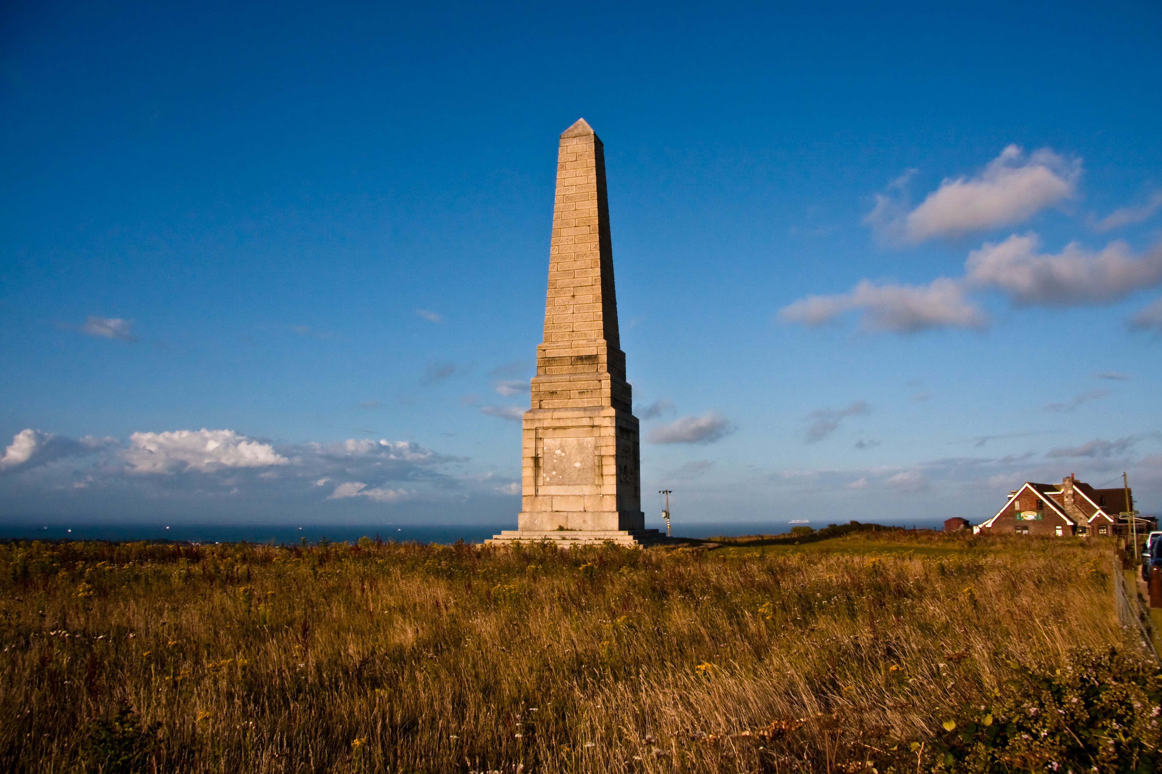 Monument to Charles Anderson-Pelham, 1st Earl of Yarborough, Commodore of the Royal Cowes Yacht Club. Culver Down, Isle of Wight.